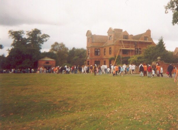 Packington Old Hall. Built in 1679 by the Fisher family.